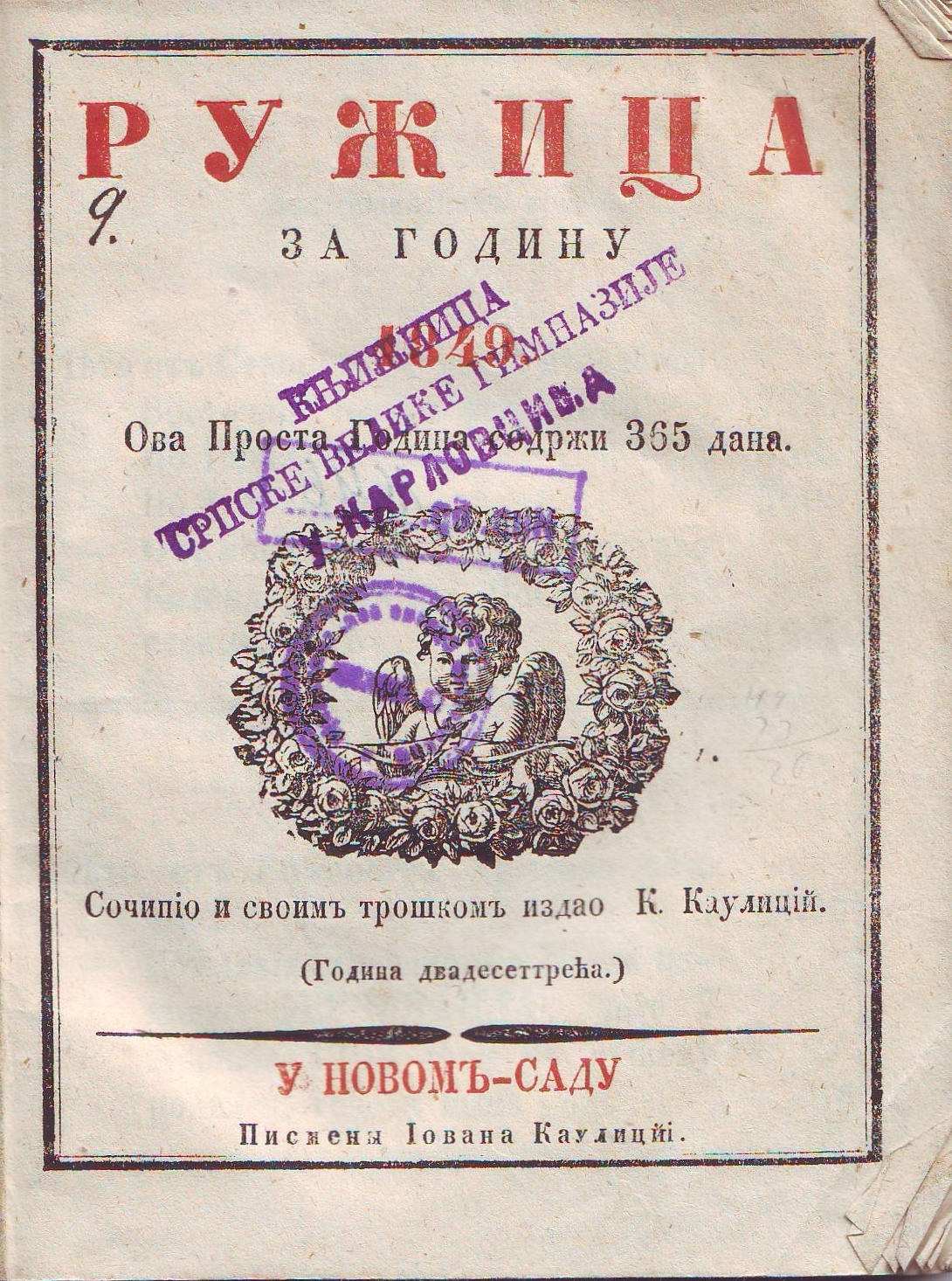 Cover of the 1849 edition of the calendar Ružica (Rose). Srpski (latinica): Naslovna strana izdanja kalendara Ružica za 1849. godinu.